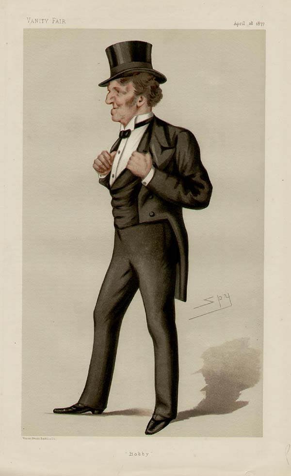 Statesmen No.250: Caricature of The Hon Robert Bourke. Caption reads: "Bobby"